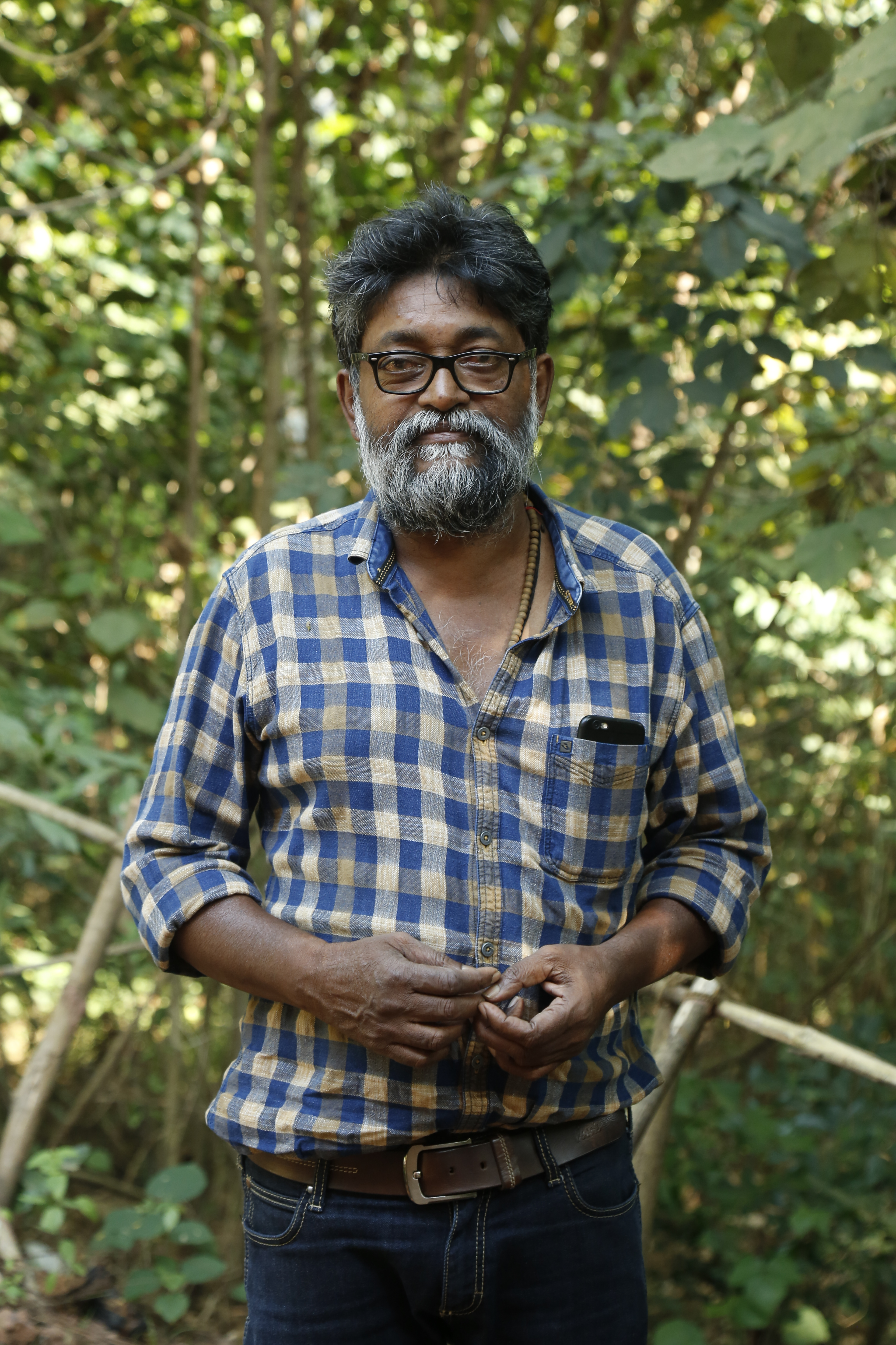 A Picture of Cinematographer M.J.Radhakrishnan